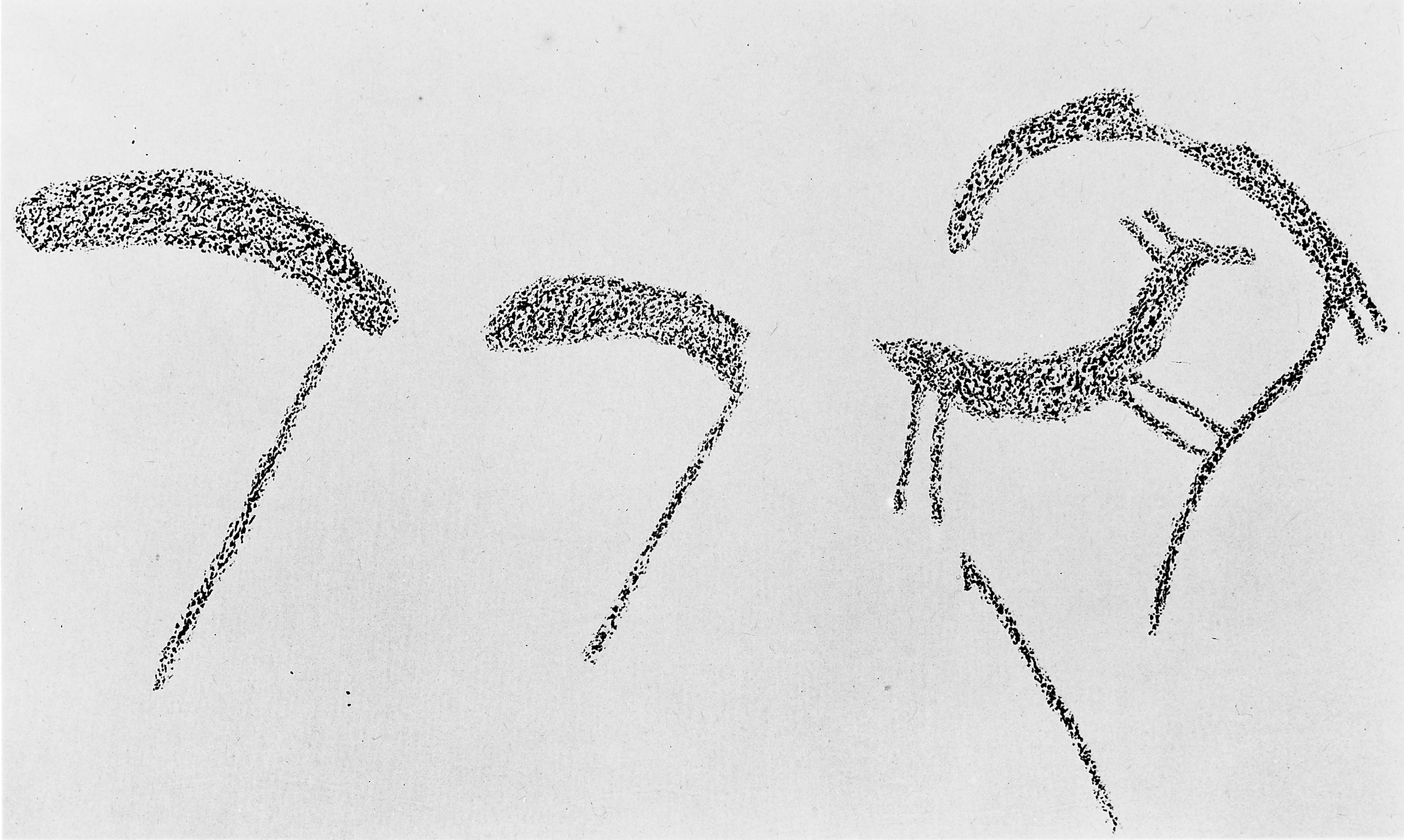 Rock engaving depicting scythes? and animal, Vingen, Norway. Wellcome Images Keywords: prehistoric art; Archaeology